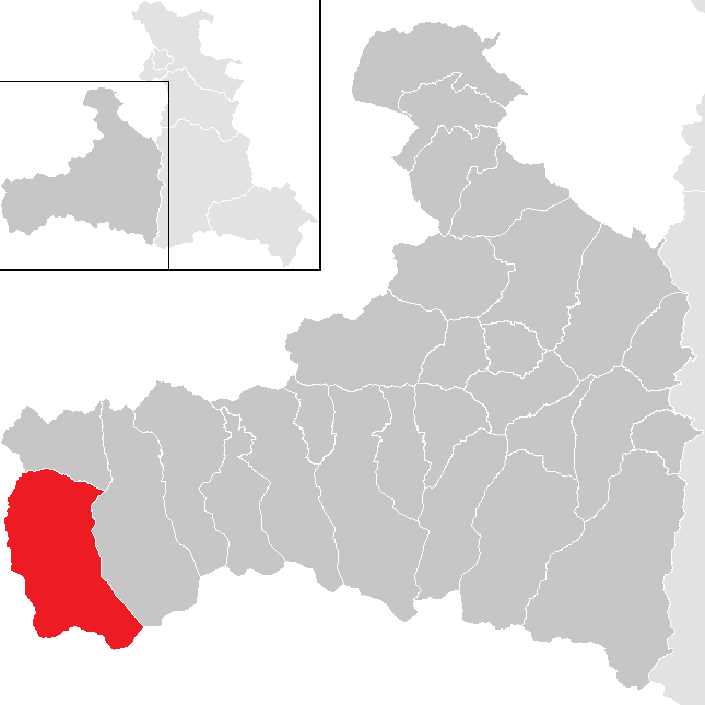 District Zell am See